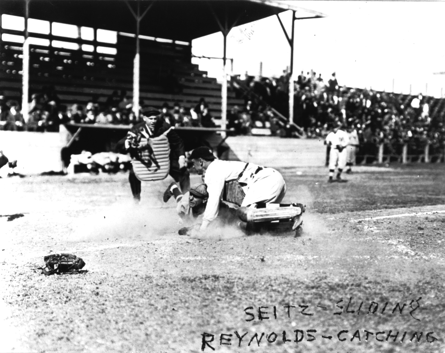 The New York Yankees of the American League play against the Houston Buffaloes of the Texas League at West End Park in Houston during a 1914 exhibition game. The Yankees held spring training at the Houston ballpark that season. Pictured are Houston catcher Charles W. Seitz sliding and New York catcher Bill Reynolds catching.